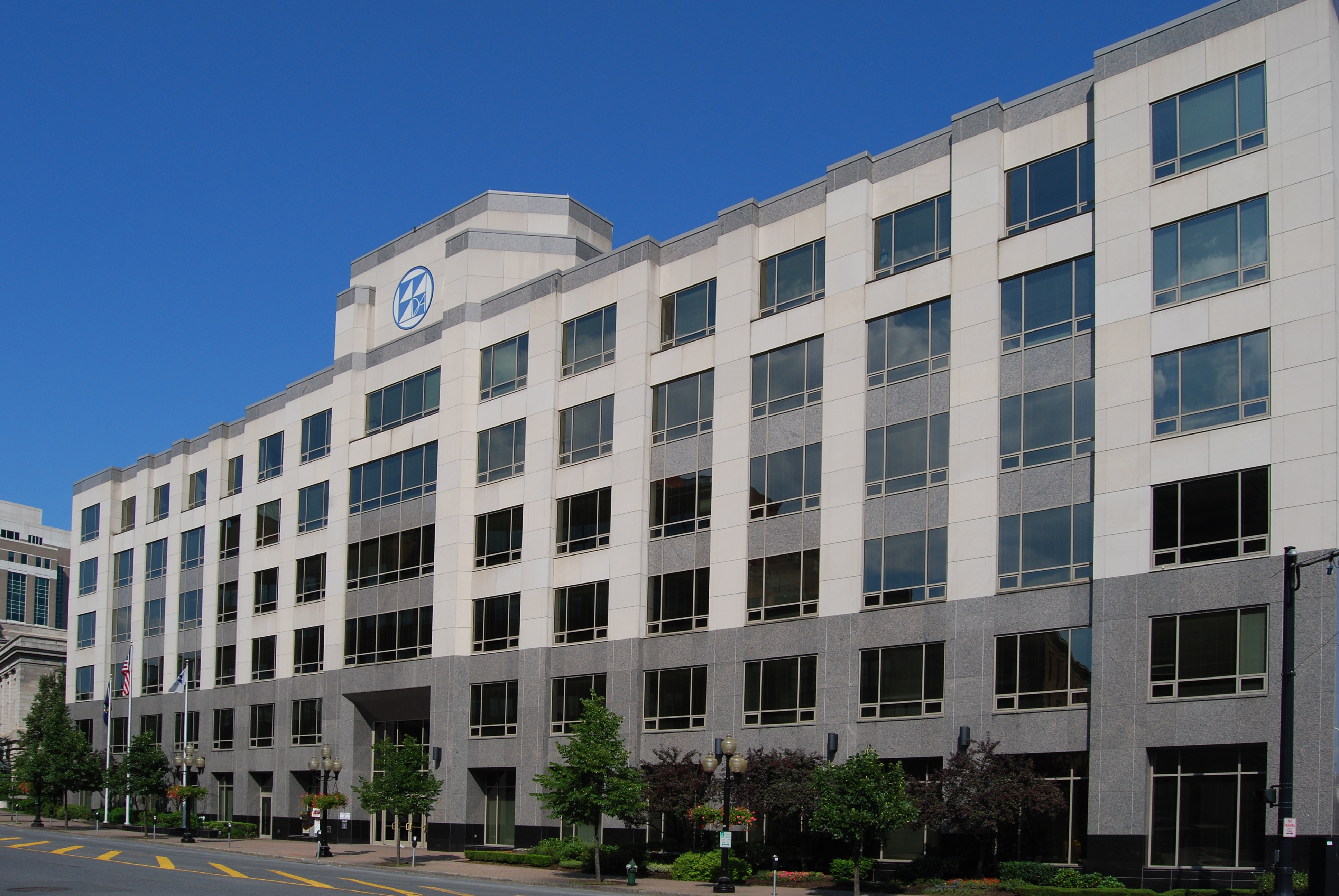 Headquarters of the Dormitory Authority of the State of New York, located on Broadway in Albany, New York, United States